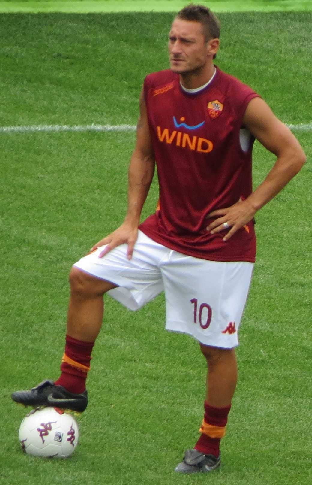 Francesco Totti (10) pauses during training, flanked by Jose Angel (background) and Marquinho (7).